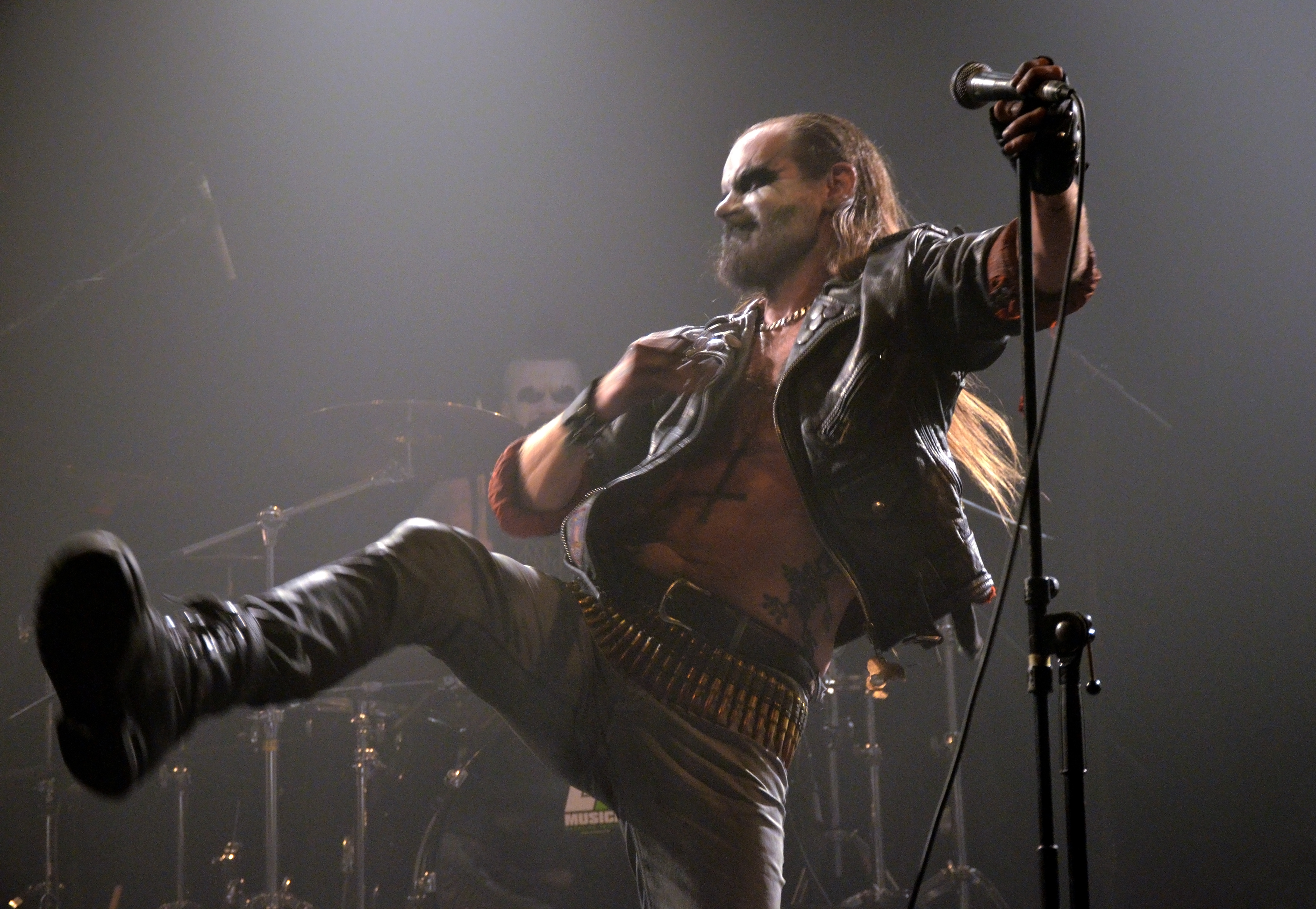 Hoest, the singer of Taake, performing at the Throne Fest 2016, the 15th of May 2016 in Kuurne.